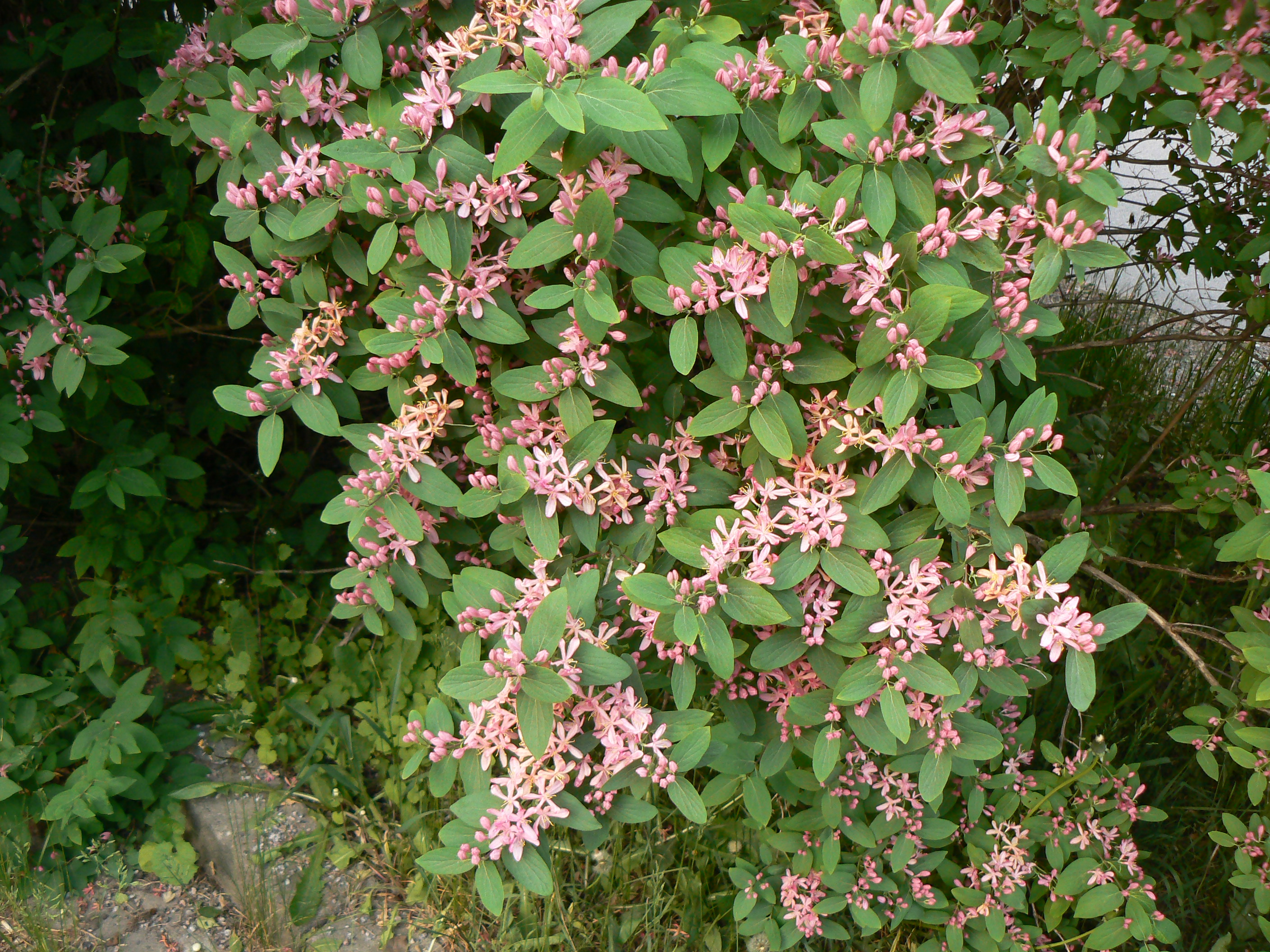 Tartarian Honeysuckle (Lonicera tatarica) in Helsinki, Finland.